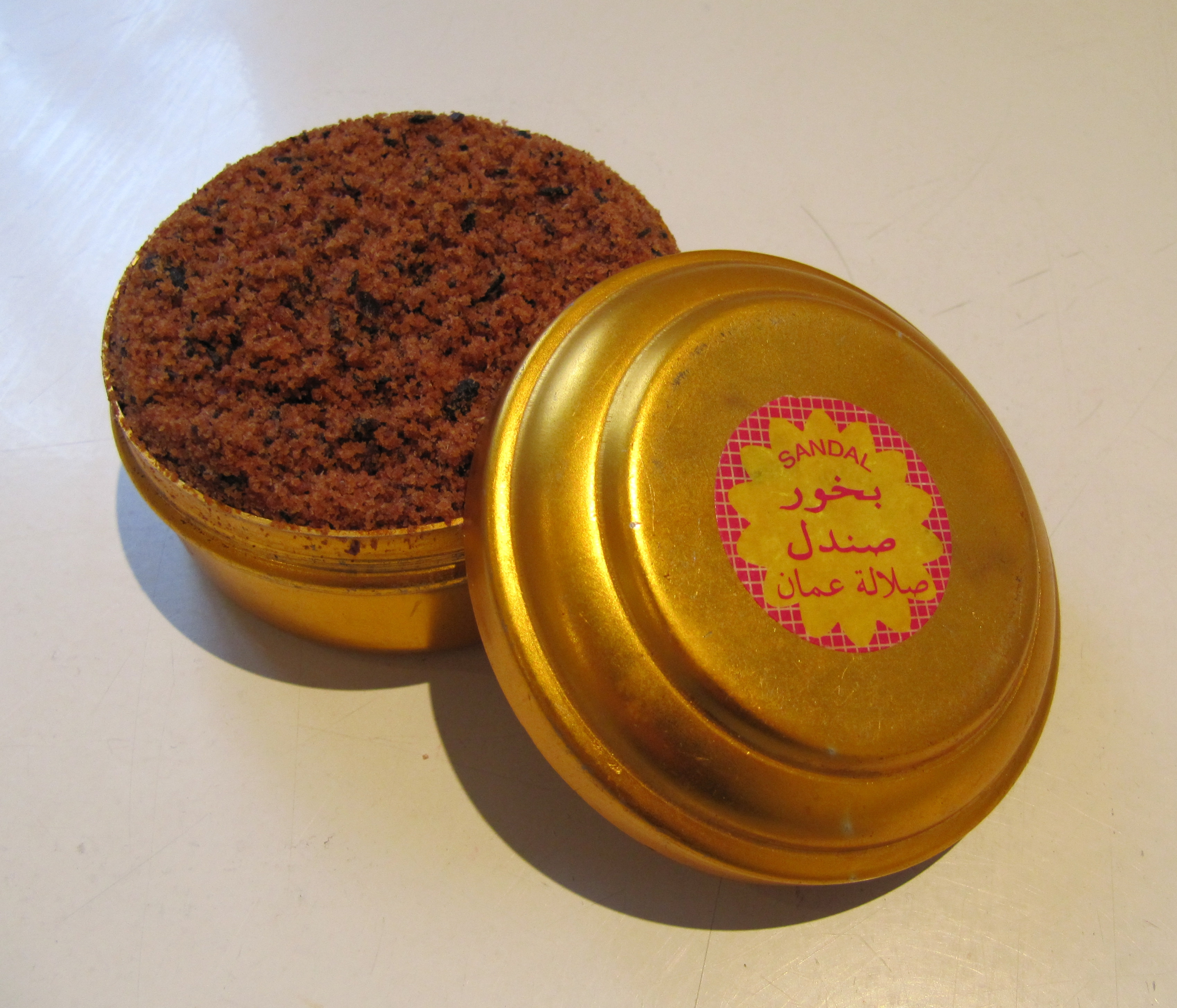 Sandalwood shavings from Oman (2009).